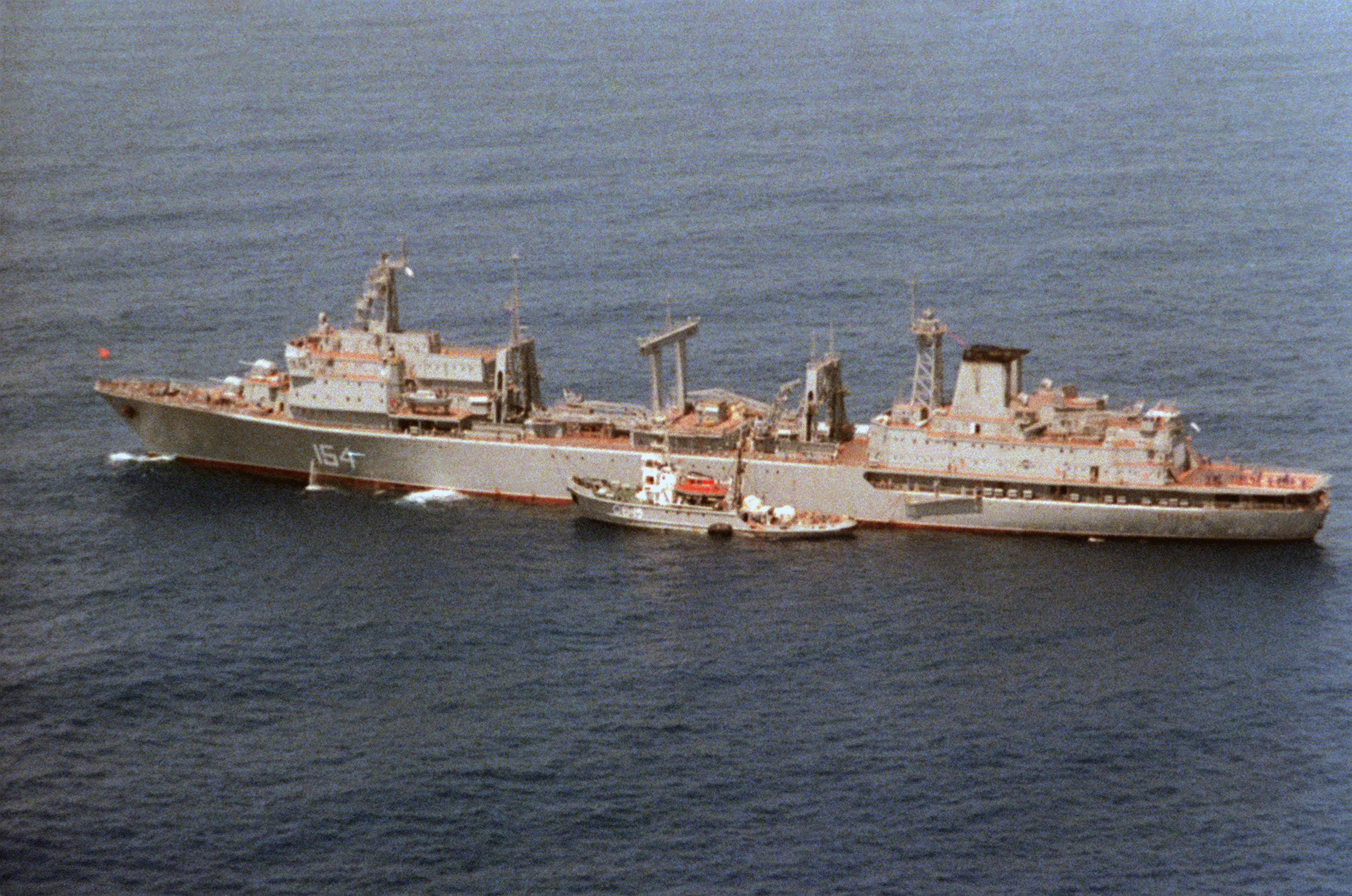 A port quarter view of the Soviet Replenishment Ship BEREZINA, with a tugboat alongside.